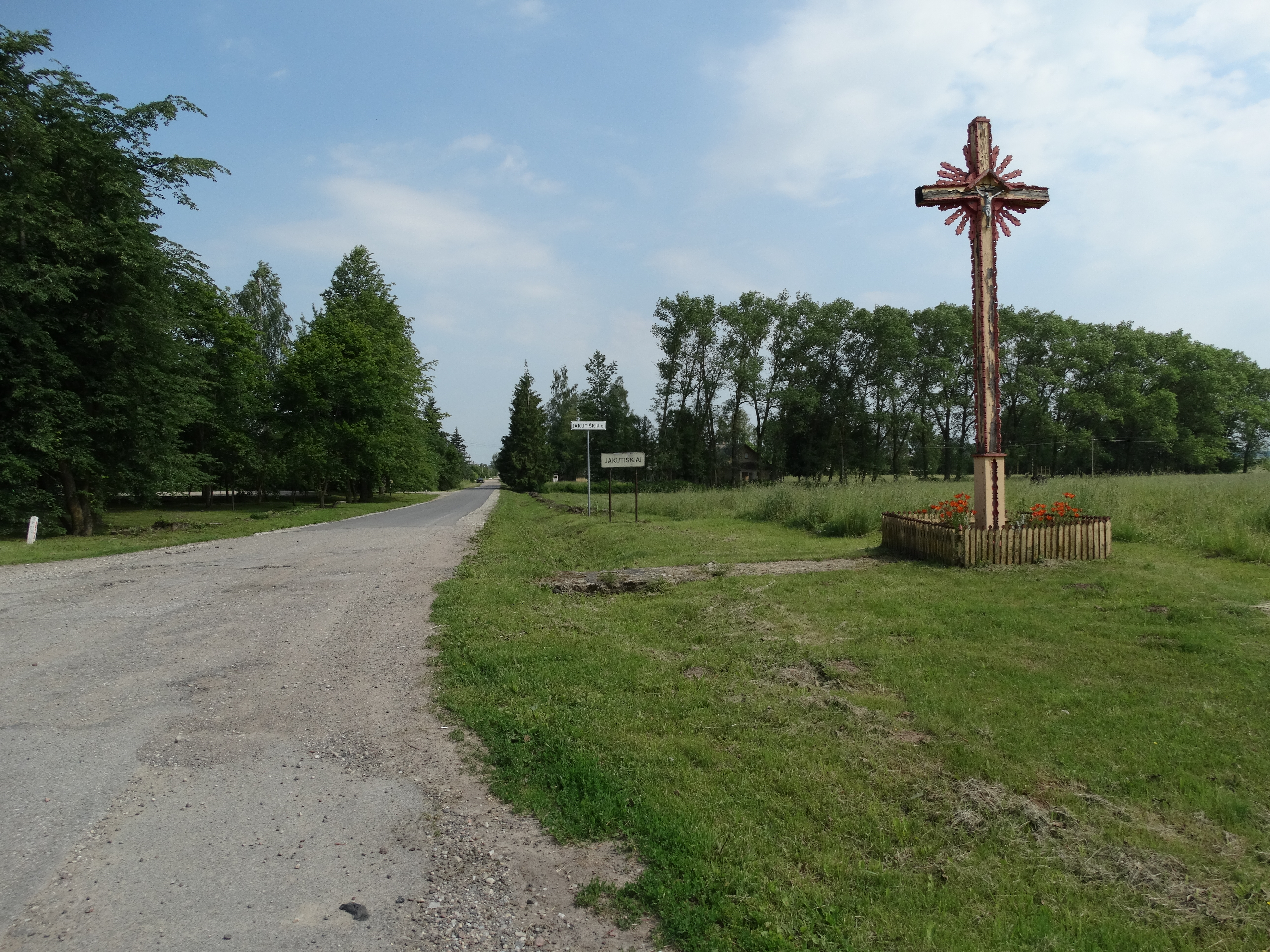 Jakutiškiai, Ukmergė District, Lithuania